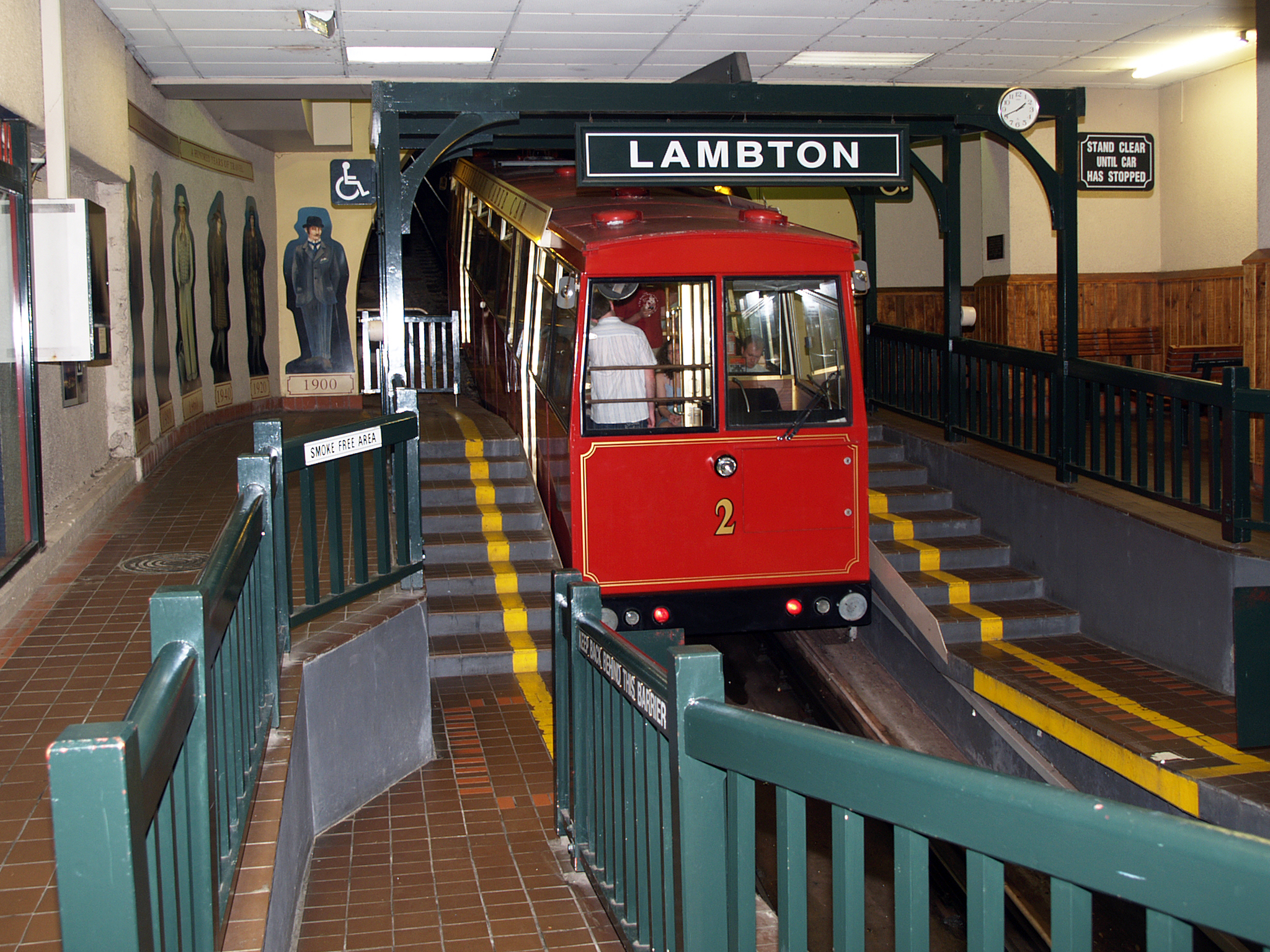 Wellington Cable Car, Wellington, New Zealand. View to the secons wagon at station Lambton Quay.